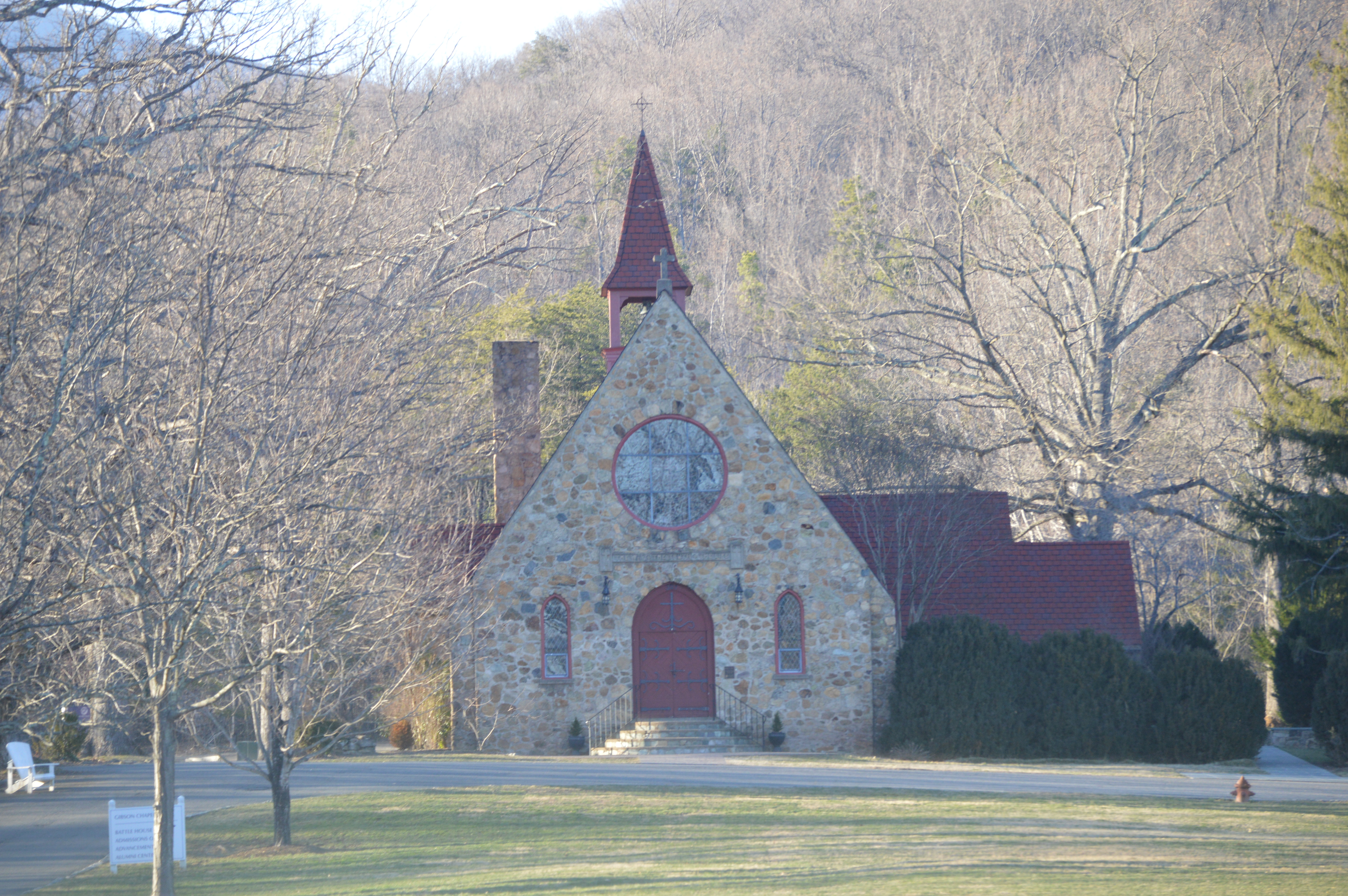 Front of Gibson Memorial Chapel, located on the campus of Blue Ridge School west of Stanardsville in Greene County, Virginia, United States. Built in 1929, it is listed on the National Register of Historic Places.